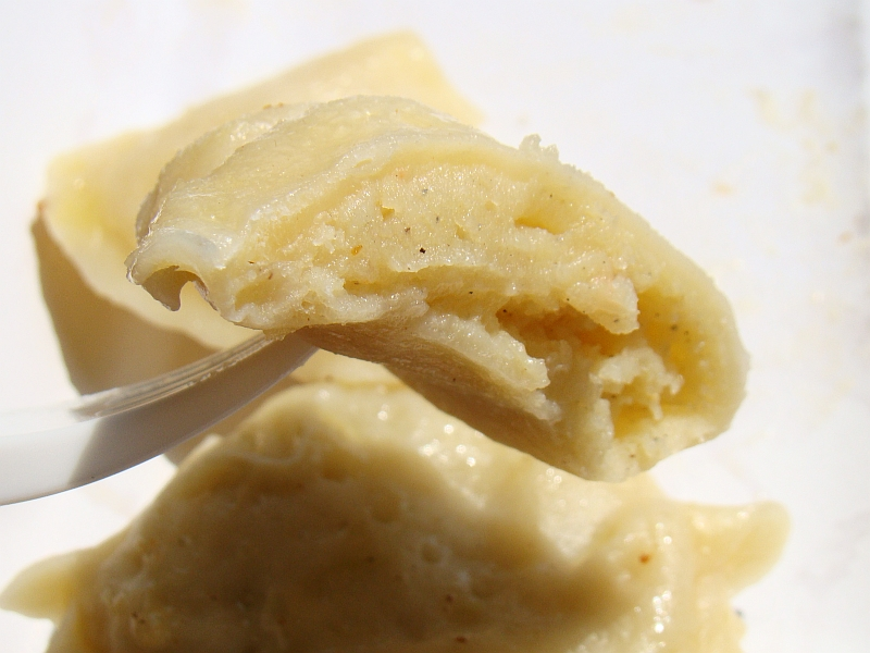 Dumplings with potato